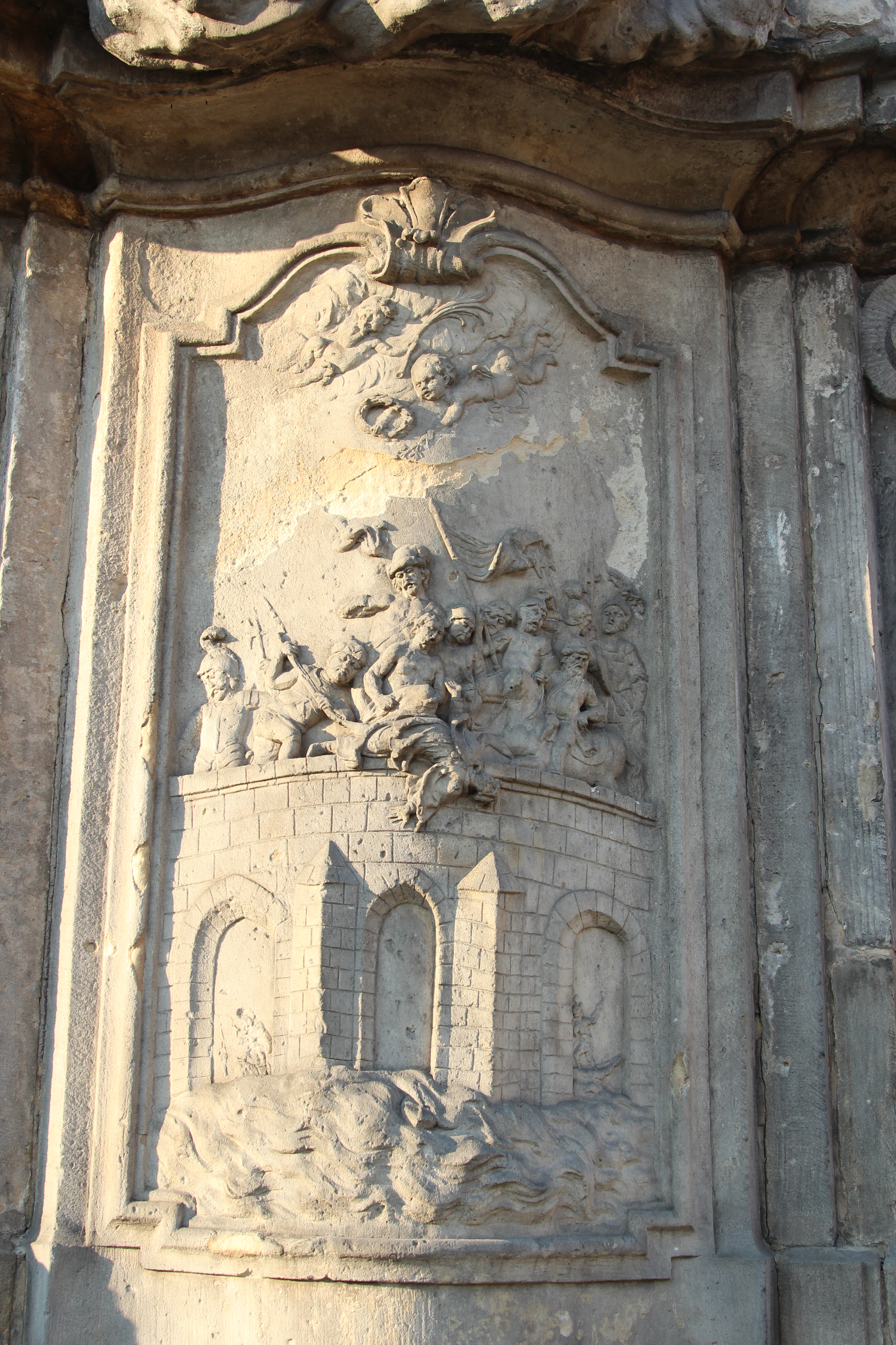 Relief from statue of Mary with Child and St. John of Nepomuk in front of Lesnica Castle.